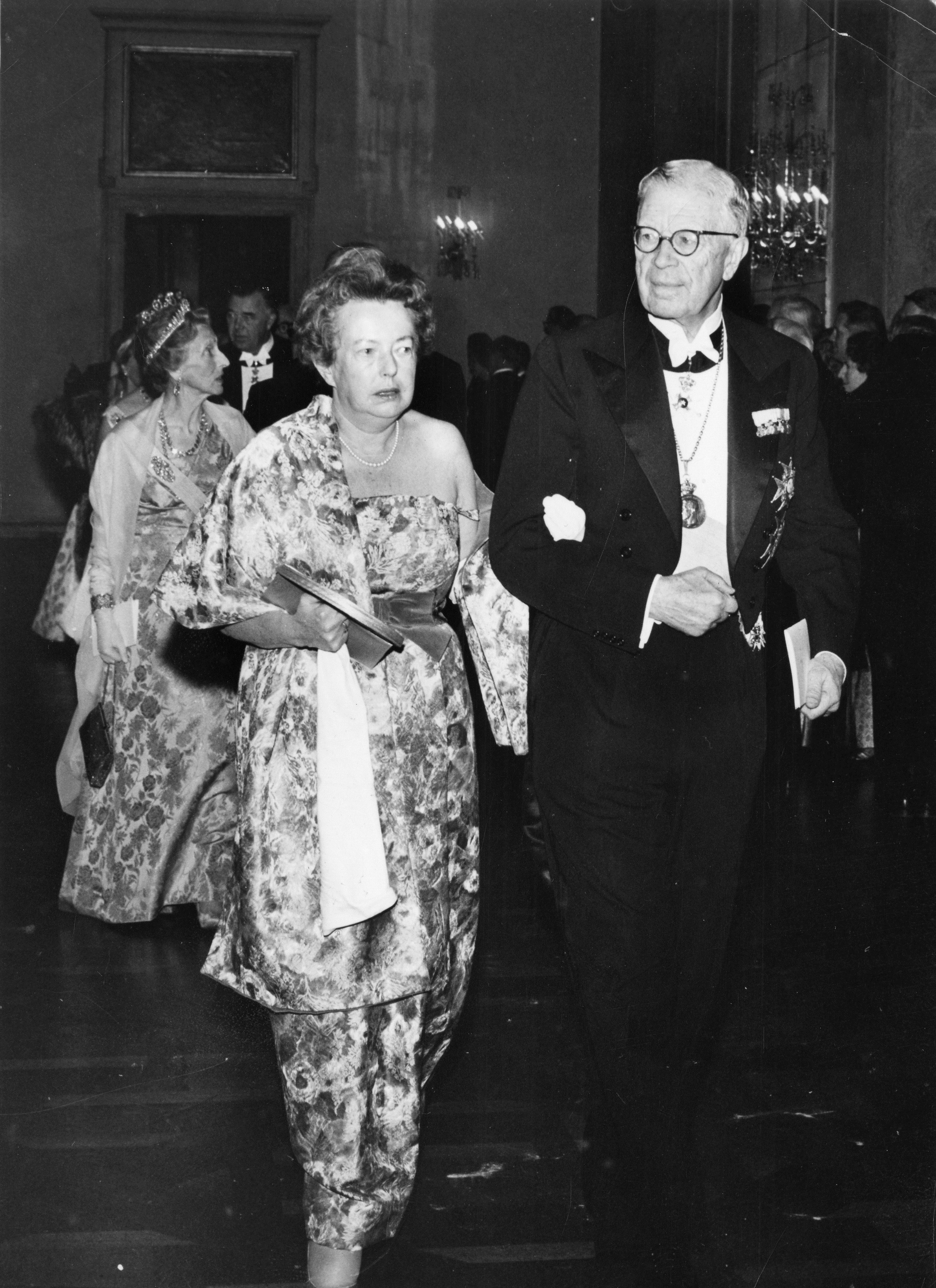 Description: This photo was taken in 1963, as physicist Maria Goeppert-Mayer (1906-1972) was being escorted by King Gustav Adolf of Sweden to a gala banquet following the ceremony during which she received the Nobel Prize in physics for development of the model of atomic nuclei in which the orbits of protons and neutrons are arranged in concentric "shells". Creator/Photographer: Unidentified photographer Medium: Black and white photographic print Date: 1963 Persistent URL: [1] Repository: Smithsonian Institution Archives Collection: Science Service Records, 1902-1965 (Record Unit 7091) - Science Service, now the Society for Science & the Public, was a news organization founded in 1921 to promote the dissemination of scientific and technical information. Although initially intended as a news service, Science Service produced an extensive array of news features, radio programs, motion pictures, phonograph records, and demonstration kits and it also engaged in various educational, translation, and research activities. Accession number: SIA2008-1866